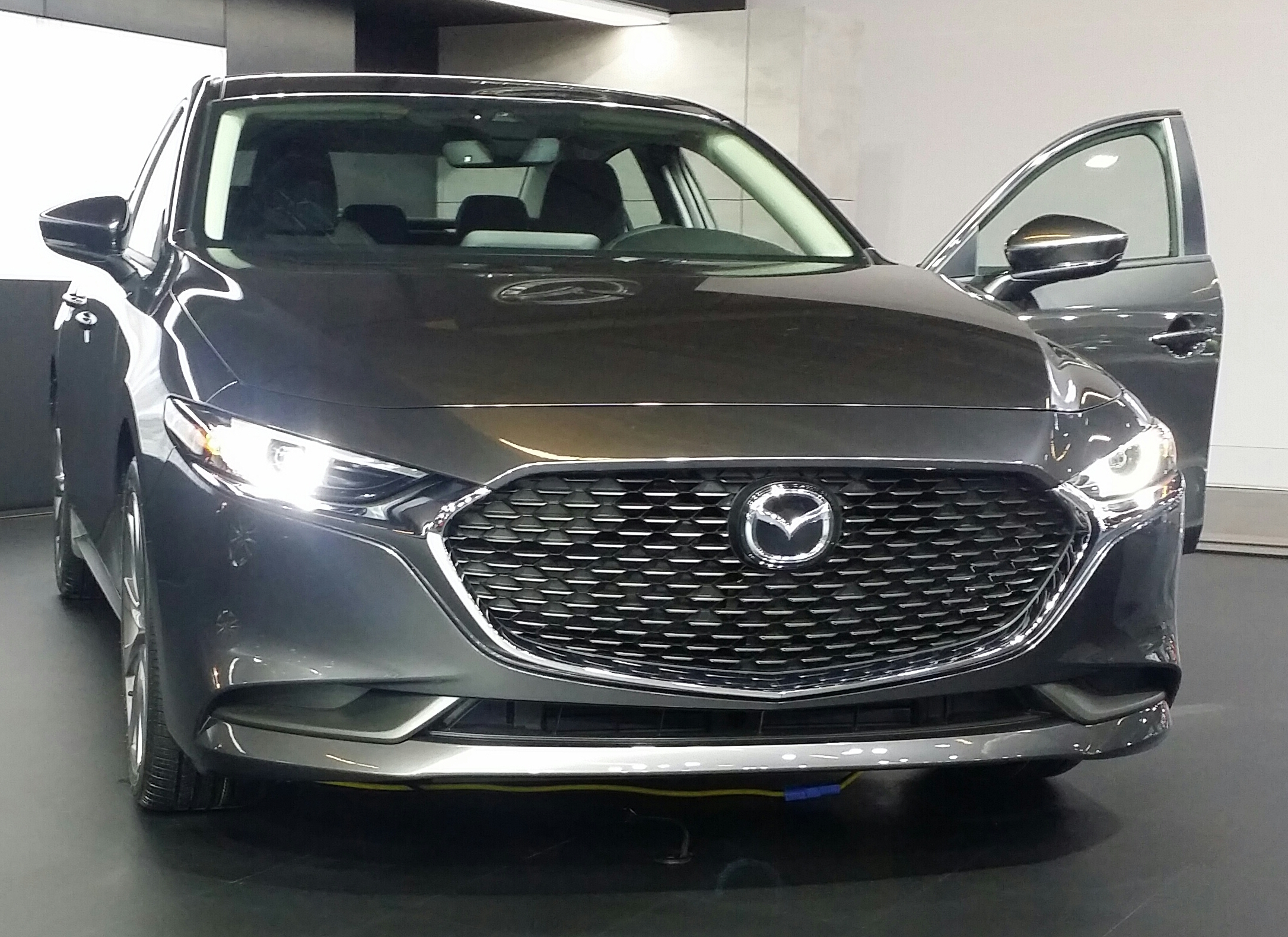 2019 Mazda3 photographed in Montréal , Québec , Canada at the 2019 Montréal International Auto Show.